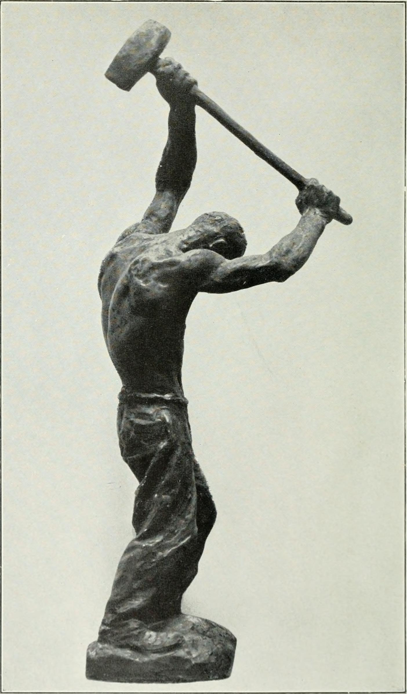 Mahonri Young - The Heavy Sledge Title: The cry for justice : an anthology of the literature of social protest. -- Year: 1915 (1910s) Authors: Sinclair, Upton, 1878-1968 Subjects: Social problems Publisher: New York and Pasadena, Pub. by Upton Sinclair Text Appearing Before Image: ' Text Appearing After Image: Till-; hi:a\v slkdcie MAIIONUl YOINi; (Atncriain sriilplur, horn 1S77) The Cry for Justice An Anthology of the Literatureof Social Protest THE WRITINGS OF PHILOSOPHERS, POETS, NOVELISTS, SOCIAL REFORMERS, AND OTHERS WHO HAVE VOICED THE STRUGGLE AGAINST SOCIAL INJUSTICE SELECTED FROM TWENTY-FIVE LANGUAGESCovering a Pericxi of Five Thousand Years Edited by UPTON SINCLAIR Author oj Sylvia. The Jungle. EtcWith an Introduction by JACK LONDON Author of The Sea Wolfr The Call of the Wild.The Valley oJ the Moon. Etc.. Etc. ILLUSTRATED WITH REPRODUCTIONSOF SOCIAL PROTEST IN ART Published byUPTON SINCLAIR NEW YORK CITY AND PASADENA, CALIFORNIA Dr. John R. Haynes, of Los Angeles, very generouslypurchased from the publishers the plates and copyrightof this book, in order to make possible the issuing ofthis edition. I asked Dr. Haynes if he would let memake acknowledgment to him in the book, and heanswered : Dedicate the book to those unknown ones,who by their dimes and quarters keep the Socialist